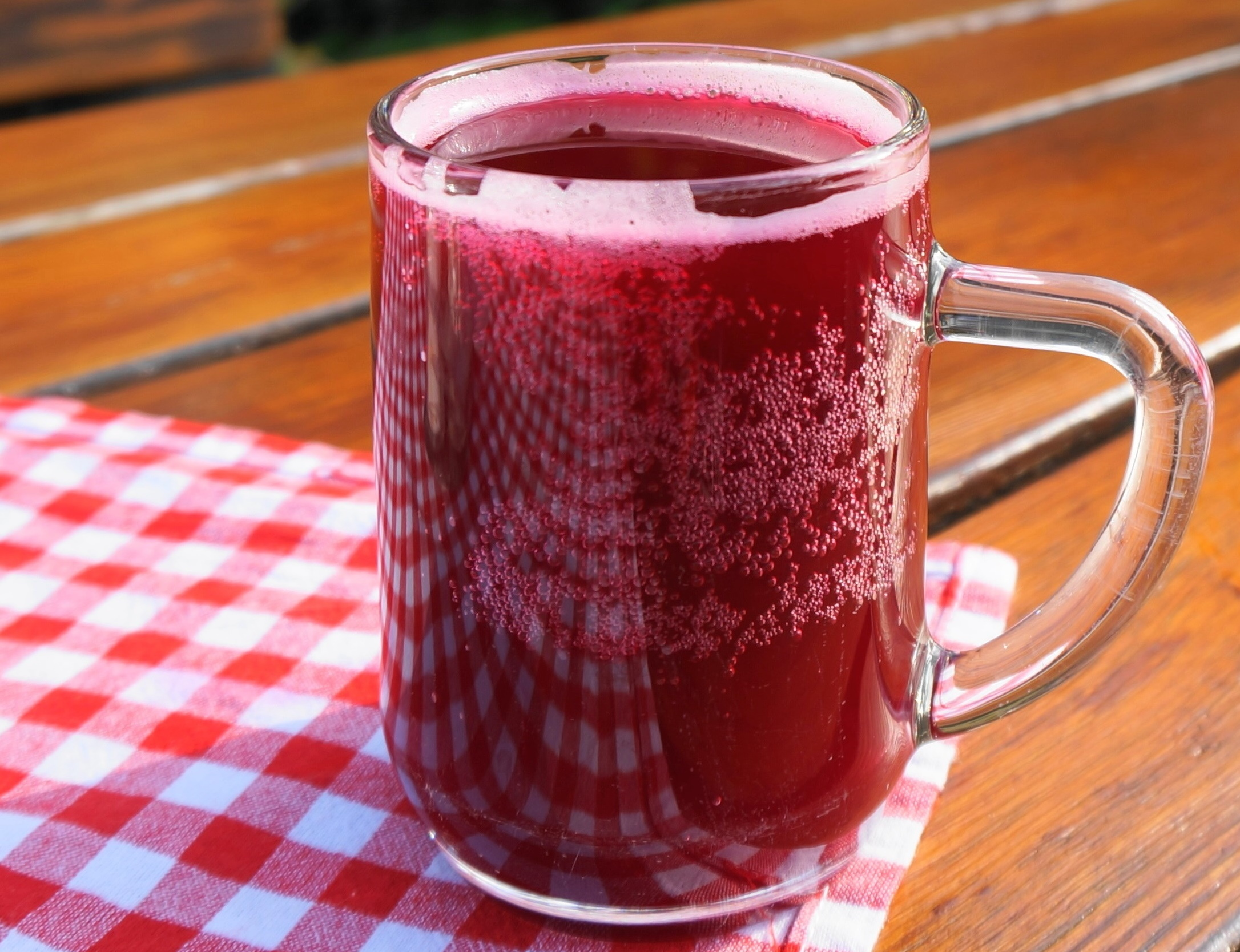 Schilcher is a Styrian Junker wine, also known as Blauer Wildbacher. Freshly pressed, it is known as the "Schilchersturm" in Styria, Austria, European Union.